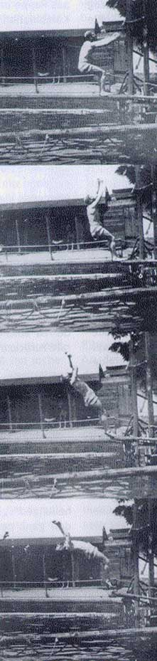 Ernst Kohlrausch, "Salto rückwärts vom Ein-Meter-Brett" (1890)